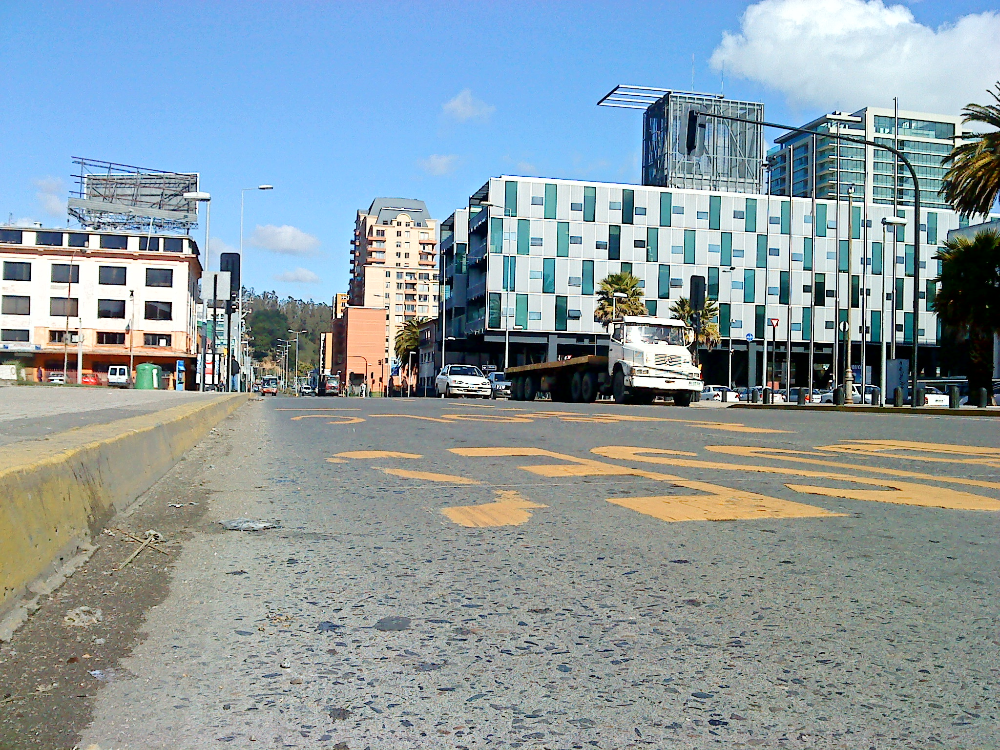 Ave Prat Concepción